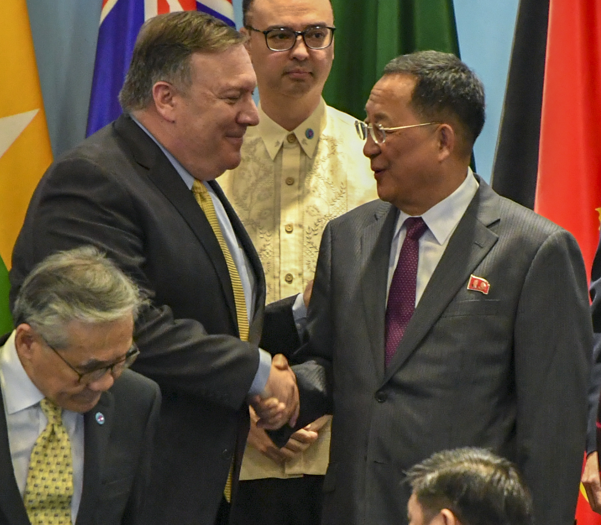 Secretary Michael R. Pompeo had the chance to speak with his DPRK counterpart FM Ri Yong Ho at ASEAN today. They had a quick, polite exchange and the US delegation also had the opportunity to deliver President Donald Trump’s reply to Chairman Kim’s letter. August 4, 2018. [State Department Photo / Public Domain]